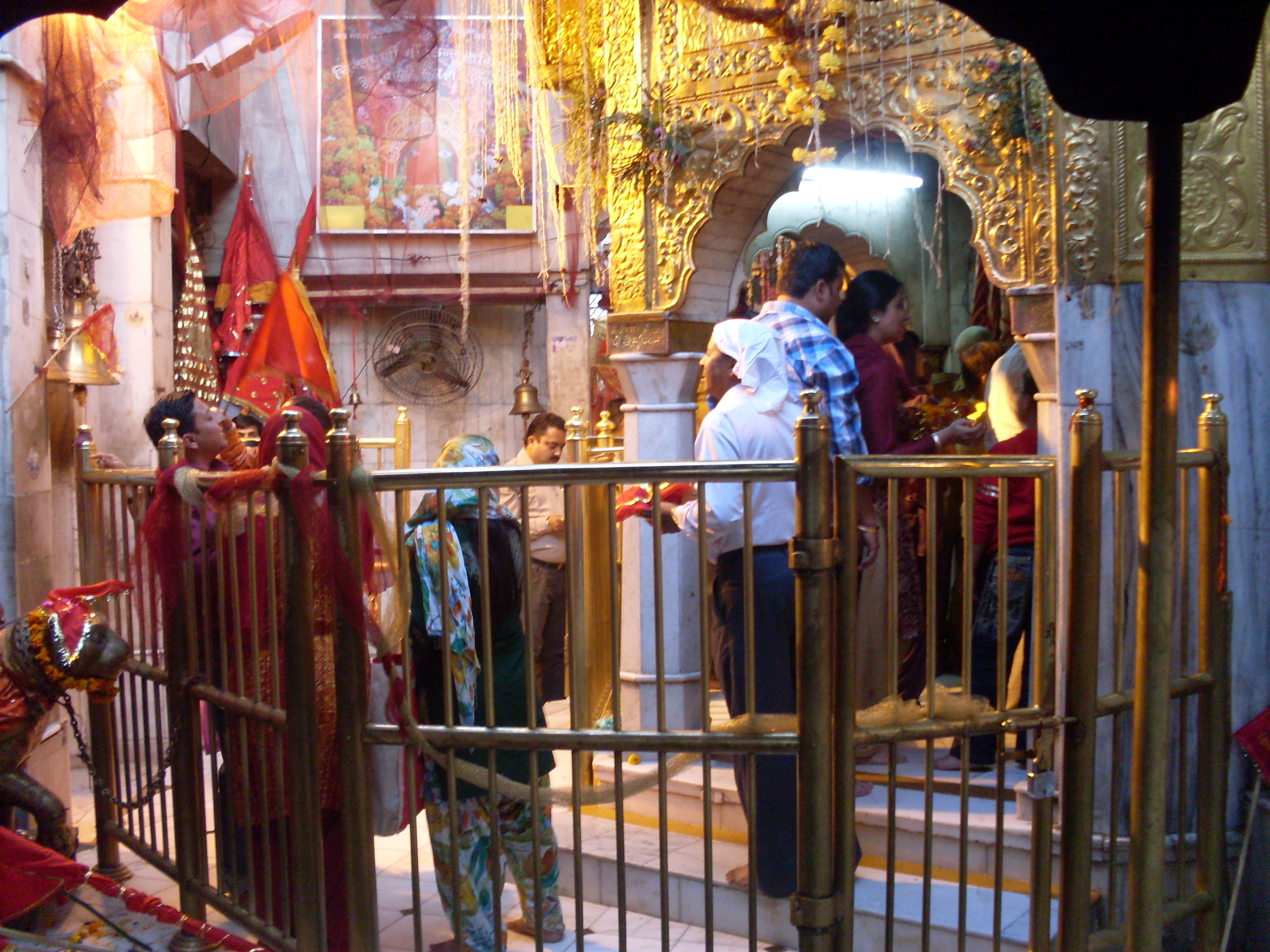 Durbar of Maa as seen from the ancient havan kund on left Chintpurni (Hindi: चिन्तपुरनी) is a place of pilgrimage in India. Chintpurni is located in Una district Himachal Pradesh state, surrounded by the western Himalaya in the north and east in the smaller Shiwalik (or Shivalik) range bordering the state of Punjab. The temple dedicated to Mata Chintpurni Devi is located in District Una of Himachal Pradesh. Mata Chintpurni Devi is also known as Mata Shri Chhinnamastika Devi. Devotees have been visiting this Shaktipeeth for centuries to pray at the lotus feet of Mata Shri Chhinnamastika Devi.